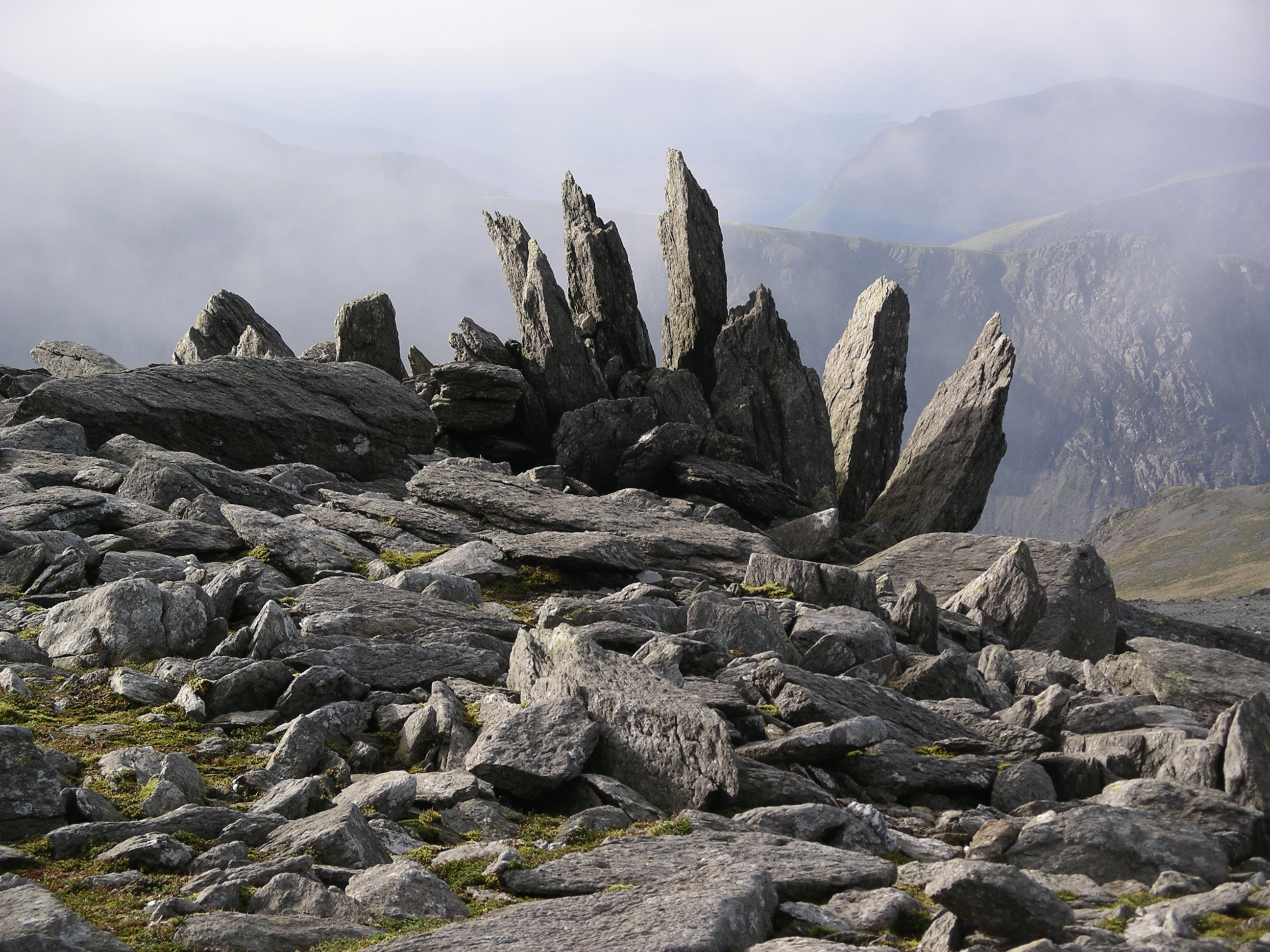 Rock formations near the summit of Glyder Fawr in Snowdonia